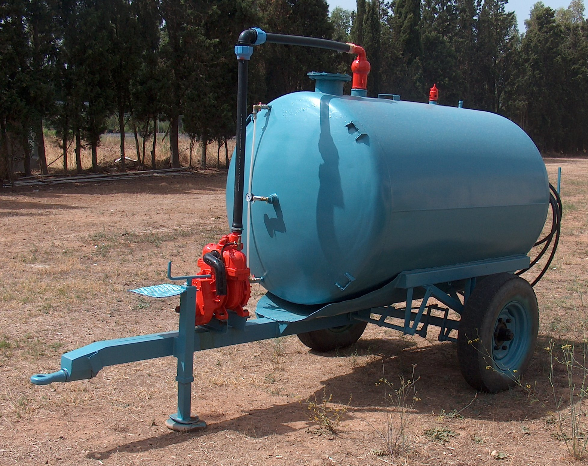 Liquid manure spreader – Professional Institute of Agriculture and Environment "Cettolini" of Cagliari (Sardinia, Italy) – Associated School of Villacidro (Sardinia, Italy)